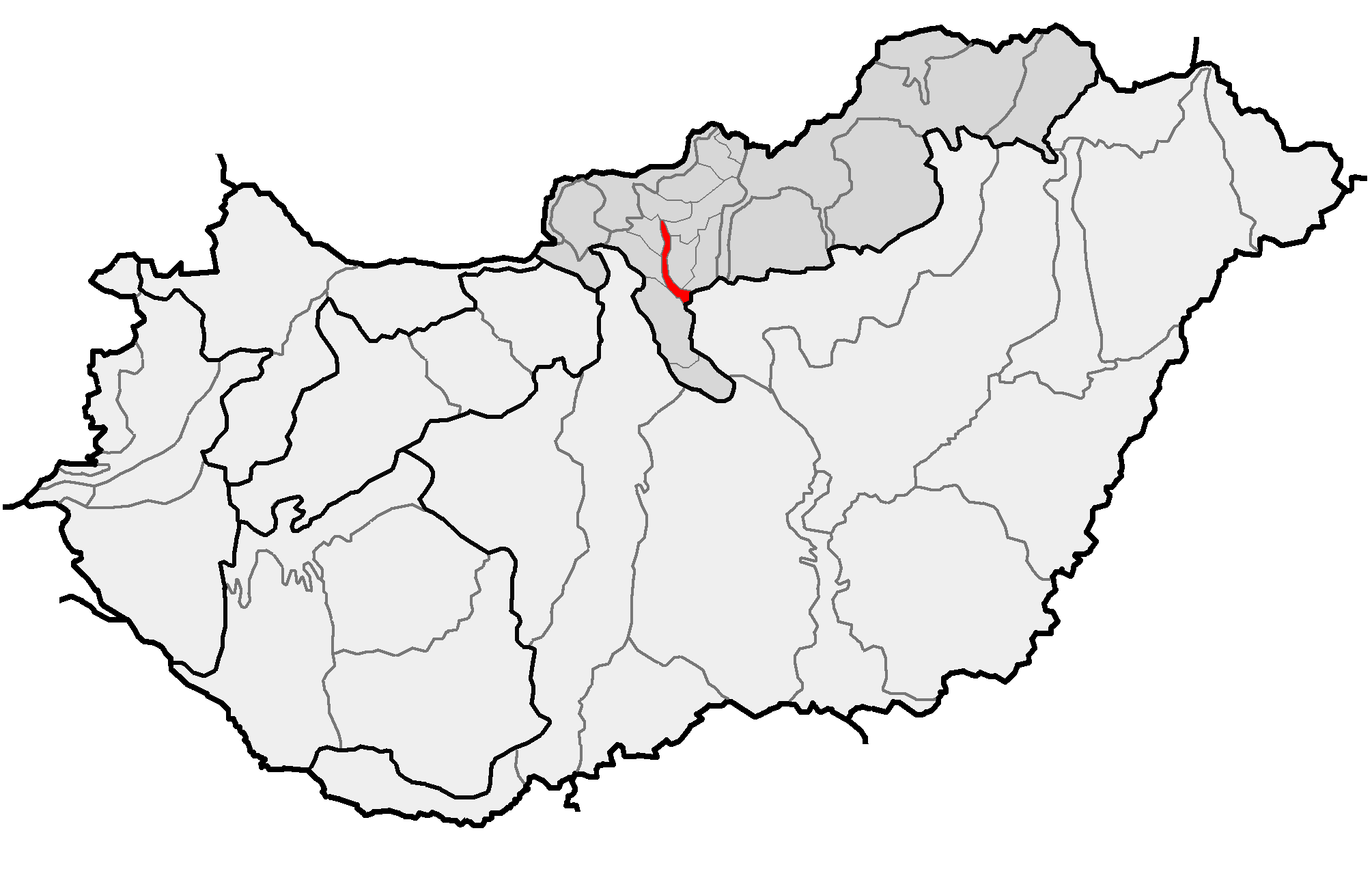 Location of geographical microregion of Galga-völgy (red) and macroregion of Északi-középhegység (gray) within subdivisions of Hungary.